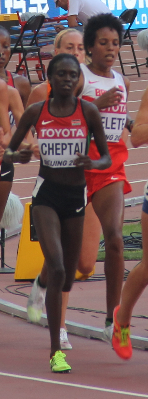 Irene Cheptai and Mimi Belete at the 2015 World Championships in Athletics